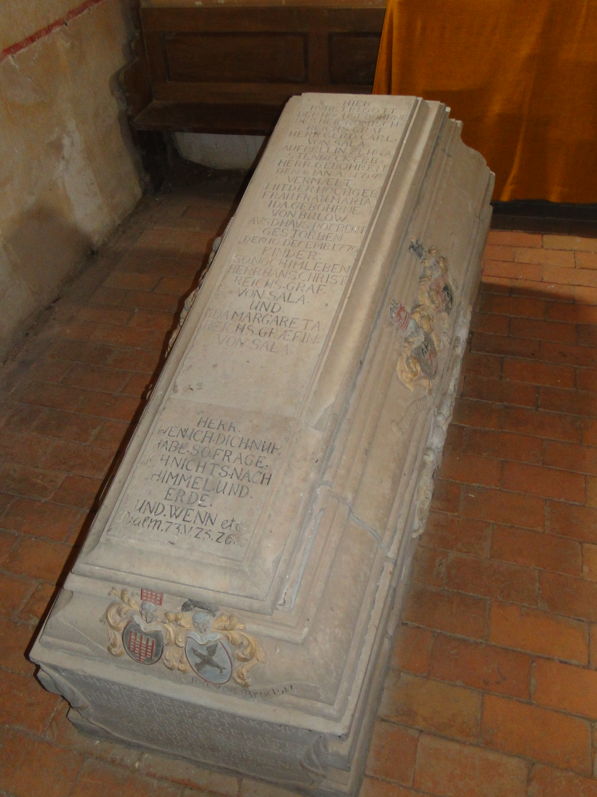 Church in Bellin, district Rostock, Mecklenburg-Vorpommern, Germany